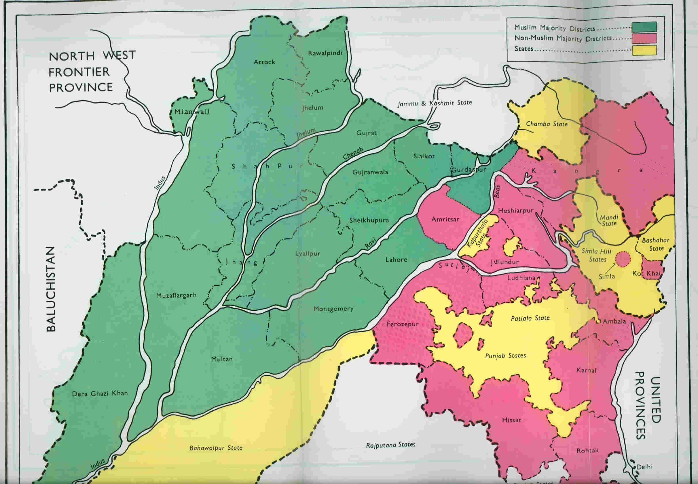 Map